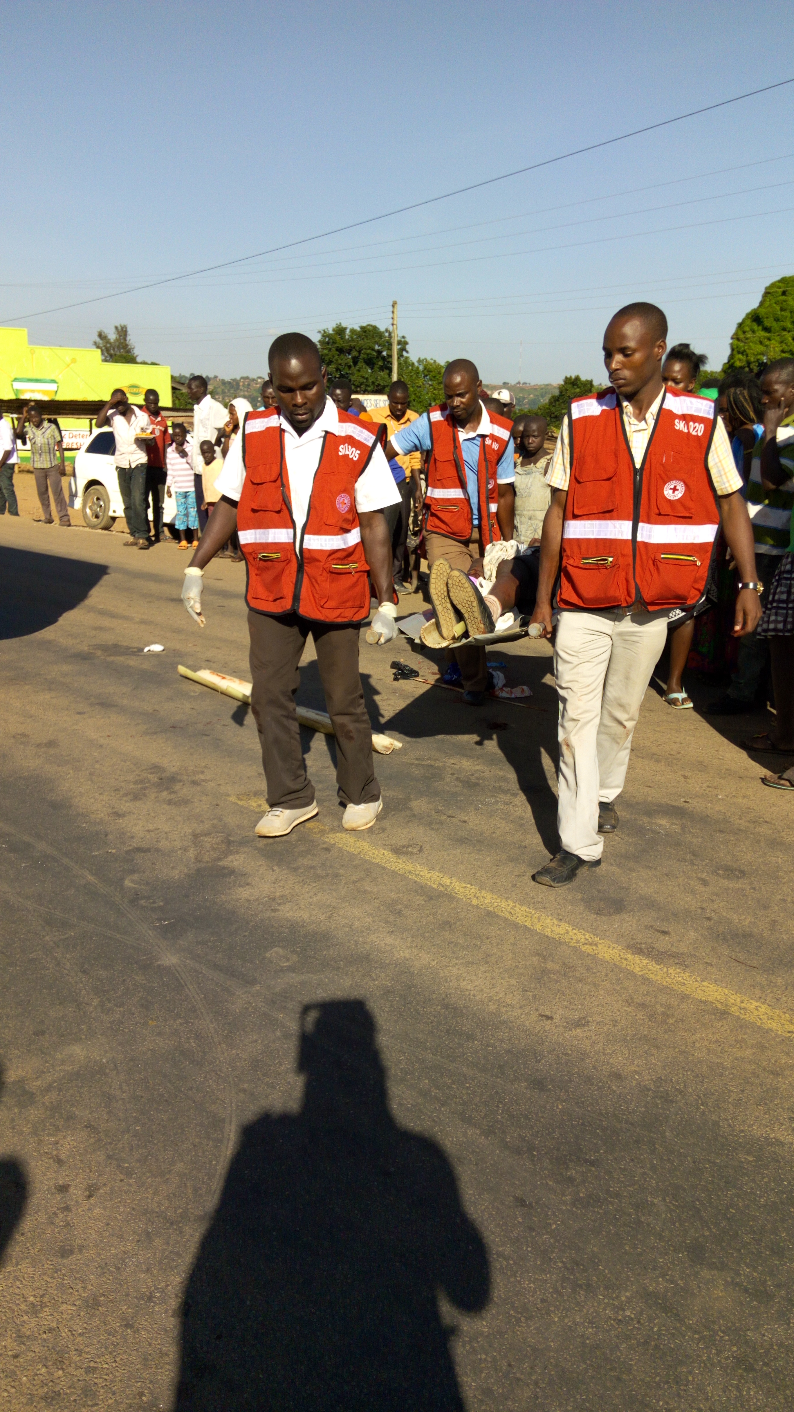 we were carrying the causality on a stretcher